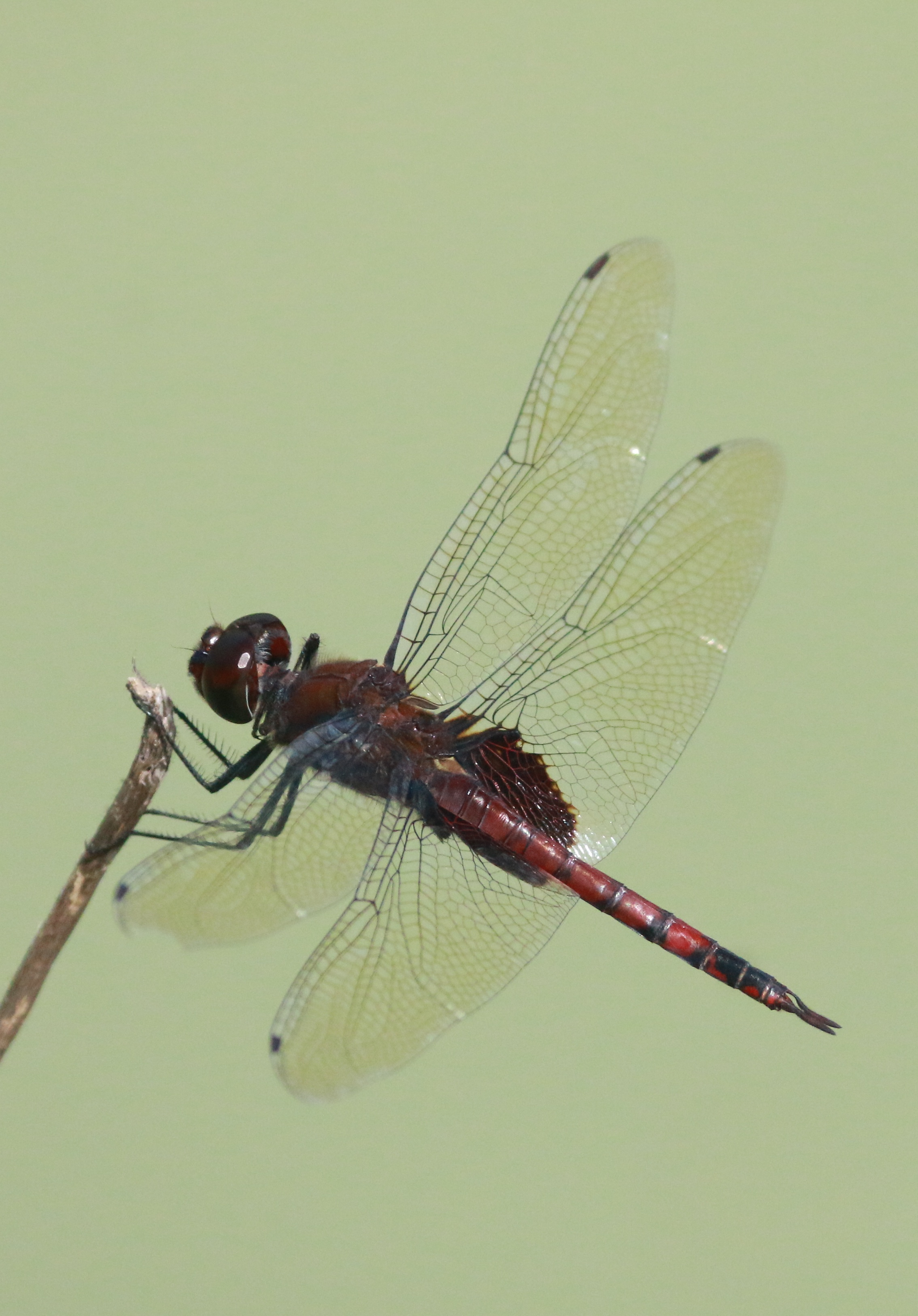 Black marsh Trotter, Tramea limbata